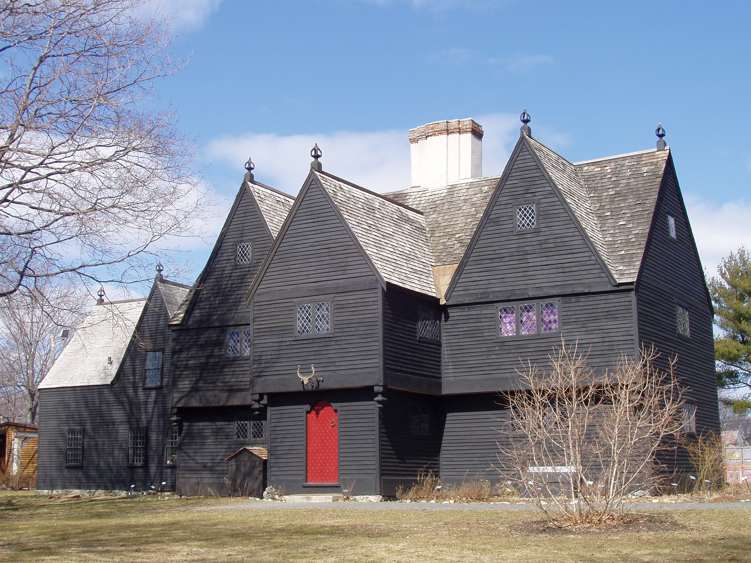 Saugus Iron Works - 17th century house on the site. This photograph was taken by me, in Saugus, Massachusetts, March 2006.